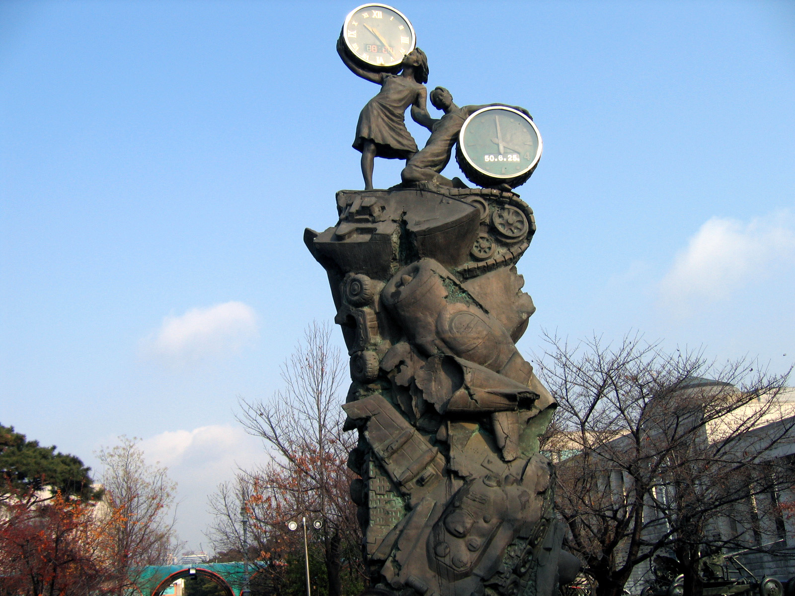 A sculpture with the time when Korean War began (10:25, June 25, 1950)中文（台灣）: 一個帶有韓戰開始時間的雕塑（1950年6月25日10點25分）